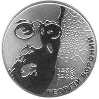 two-grivna coin celebraiting 100-years anniversary of Georgy Voronoy